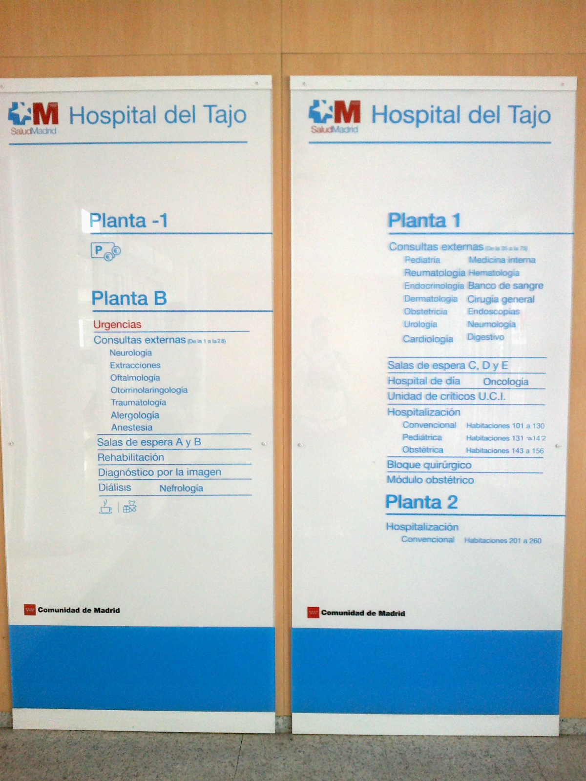 Tagus Hospital (Aranjuez, Madrid, Spain)